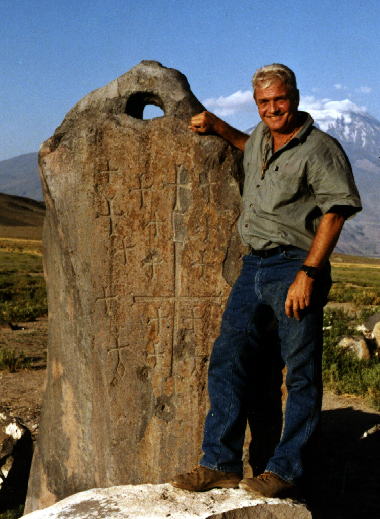 David Fasold, a promoter of the Durupınar site, stands with a Drogue Stone in Arzap ((Kazan) Türkiye) (crosses are believed to have been added later)